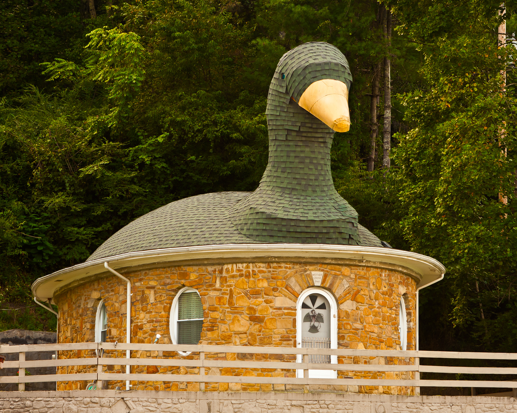 The Mother Goose. This unusual Hazard, KY landmark has been a small market and an inn since it was built in 1940.